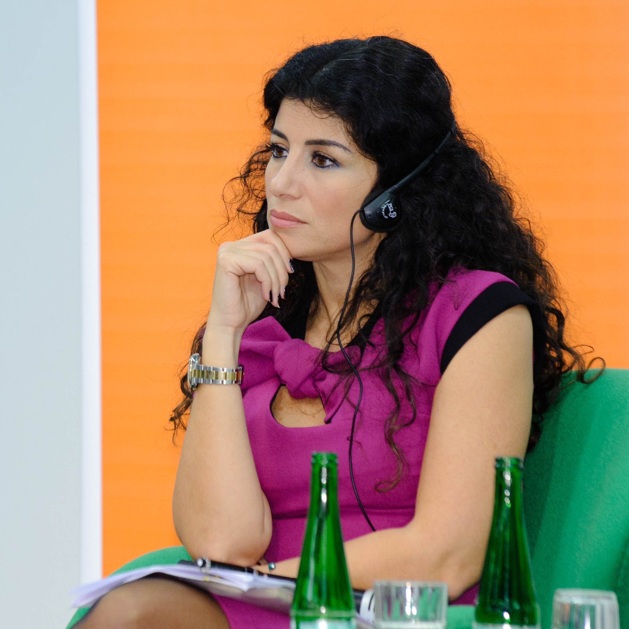 Foto: CC-BY-SA Stephan Röhl /